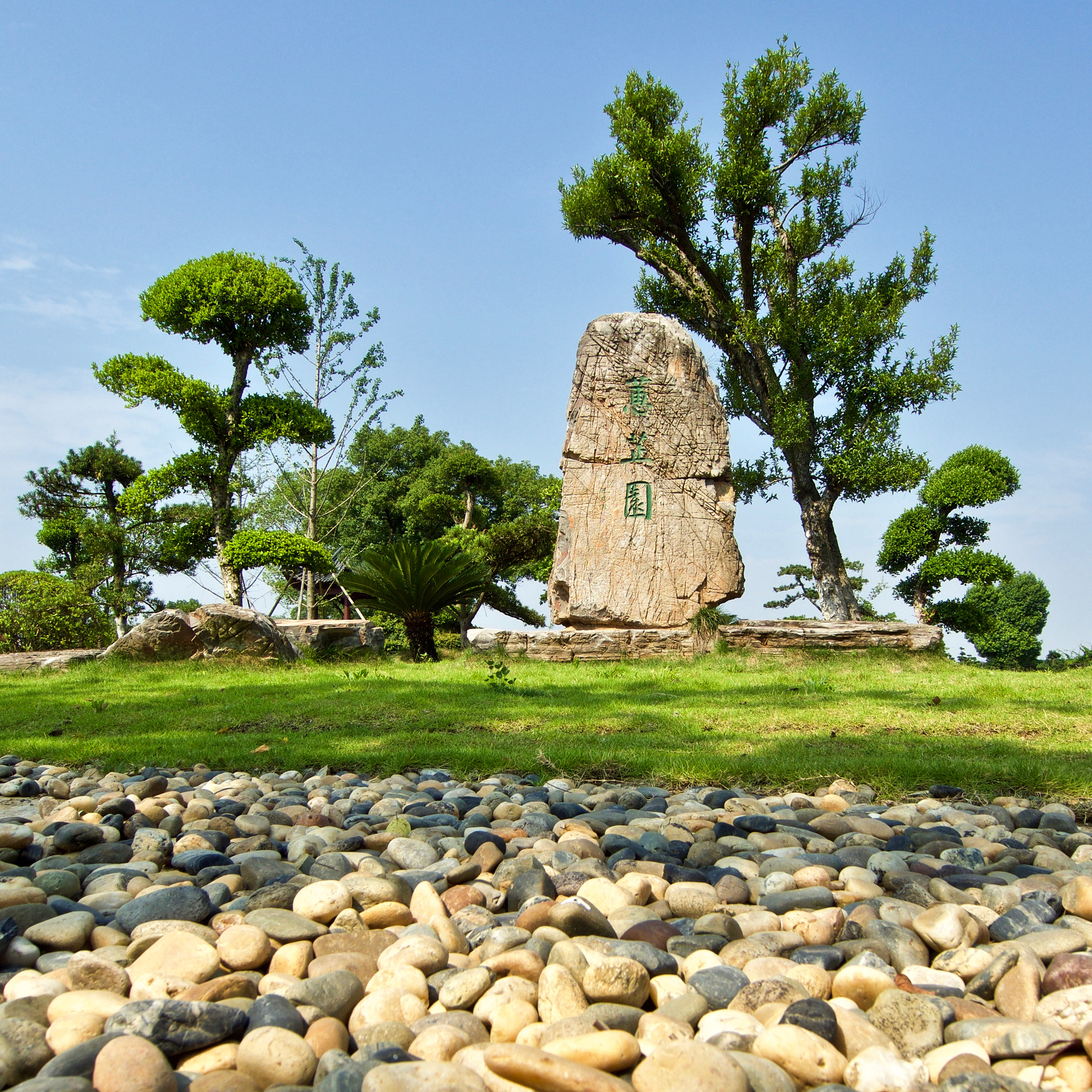 500px provided description: Photo of botanical garden at the Huazhong Agricultural University in Wuhan, China [#trees ,#stones ,#daytime ,#grass ,#stone ,#botanical garden ,#daylight ,#Chinese garden]